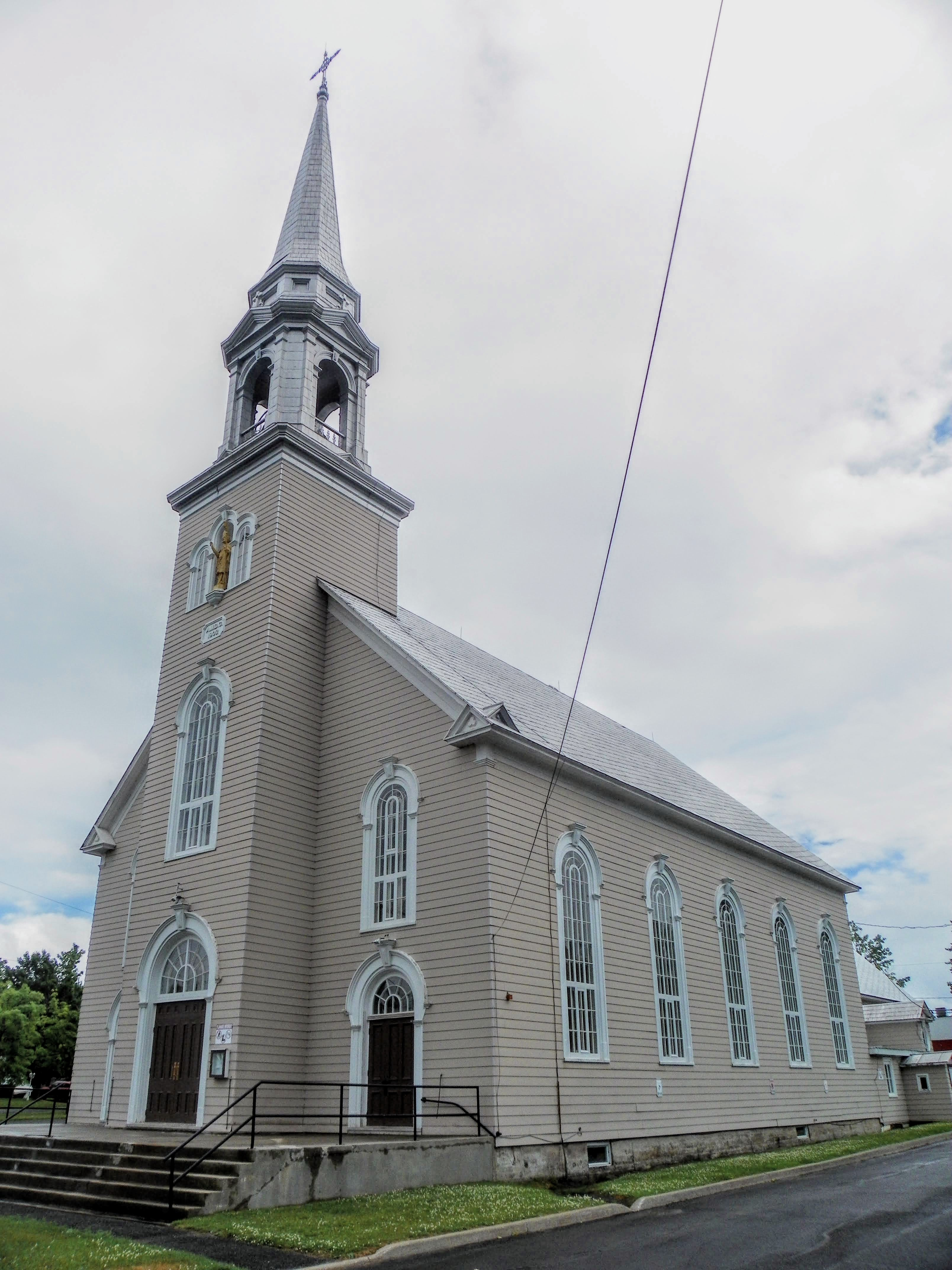 Saint-Patrice church in Saint-Patrice-de-Beaurivage, Québec.